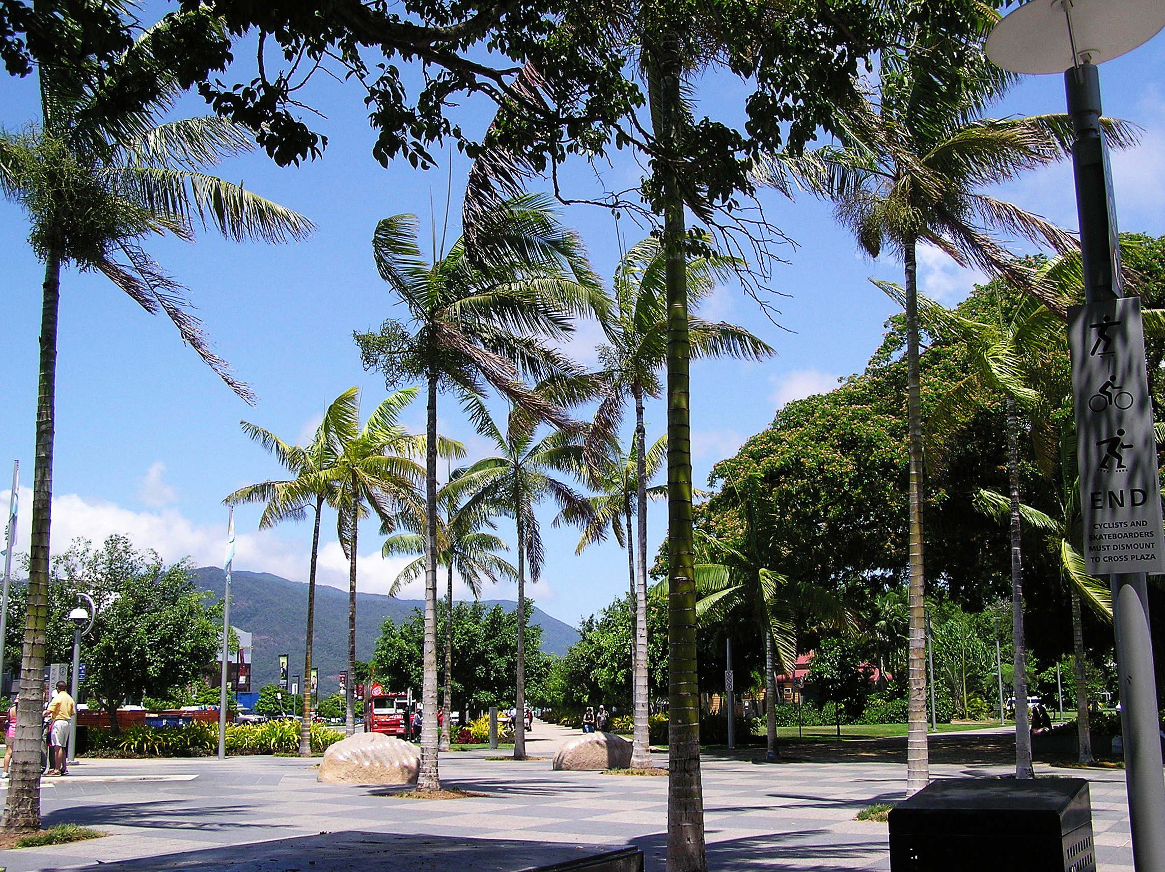 The tropical scenery in northern Queensland city Cairns